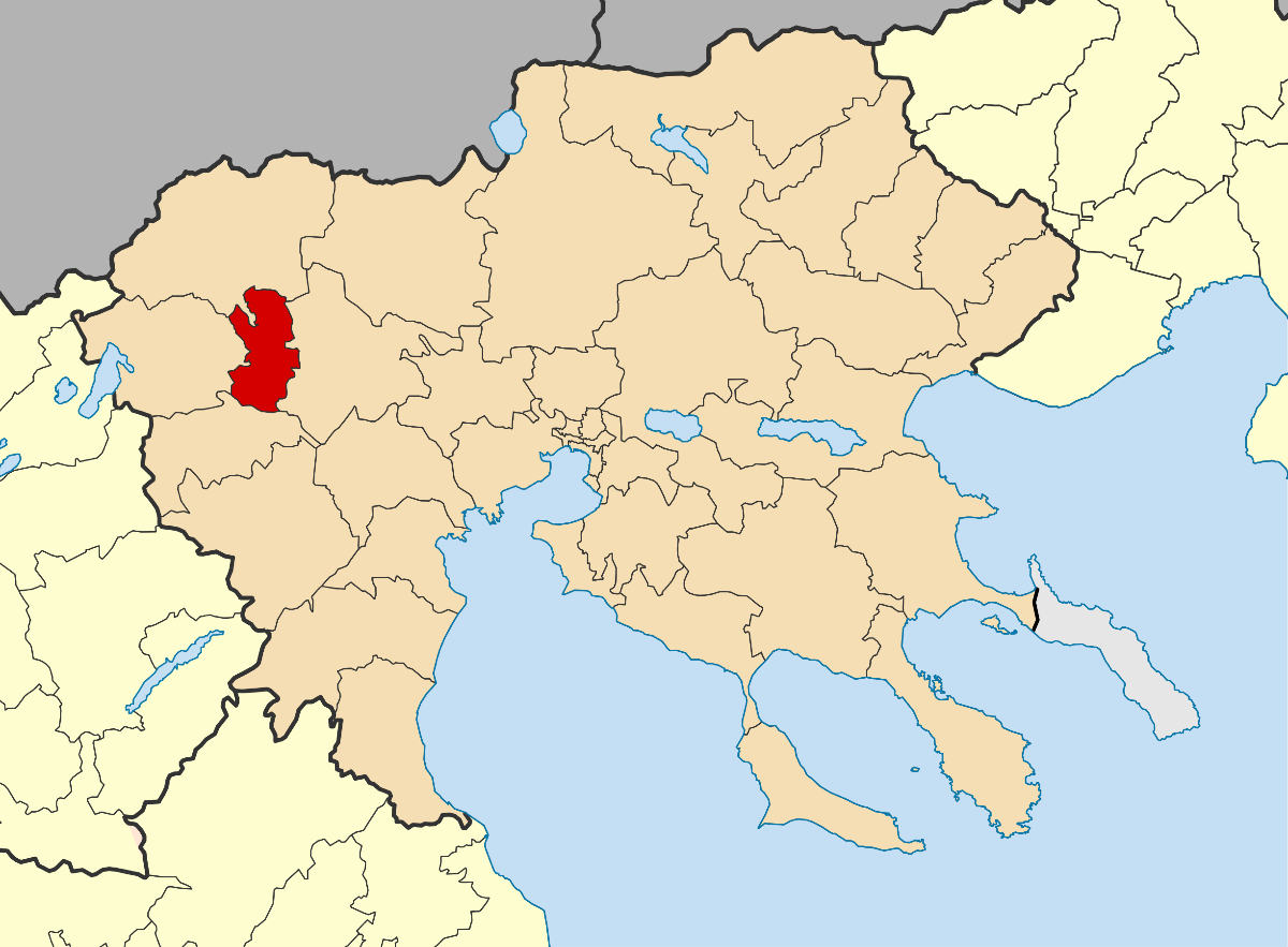 Locator map for Skydra municipality in Greek region Central Macedonia (2011)